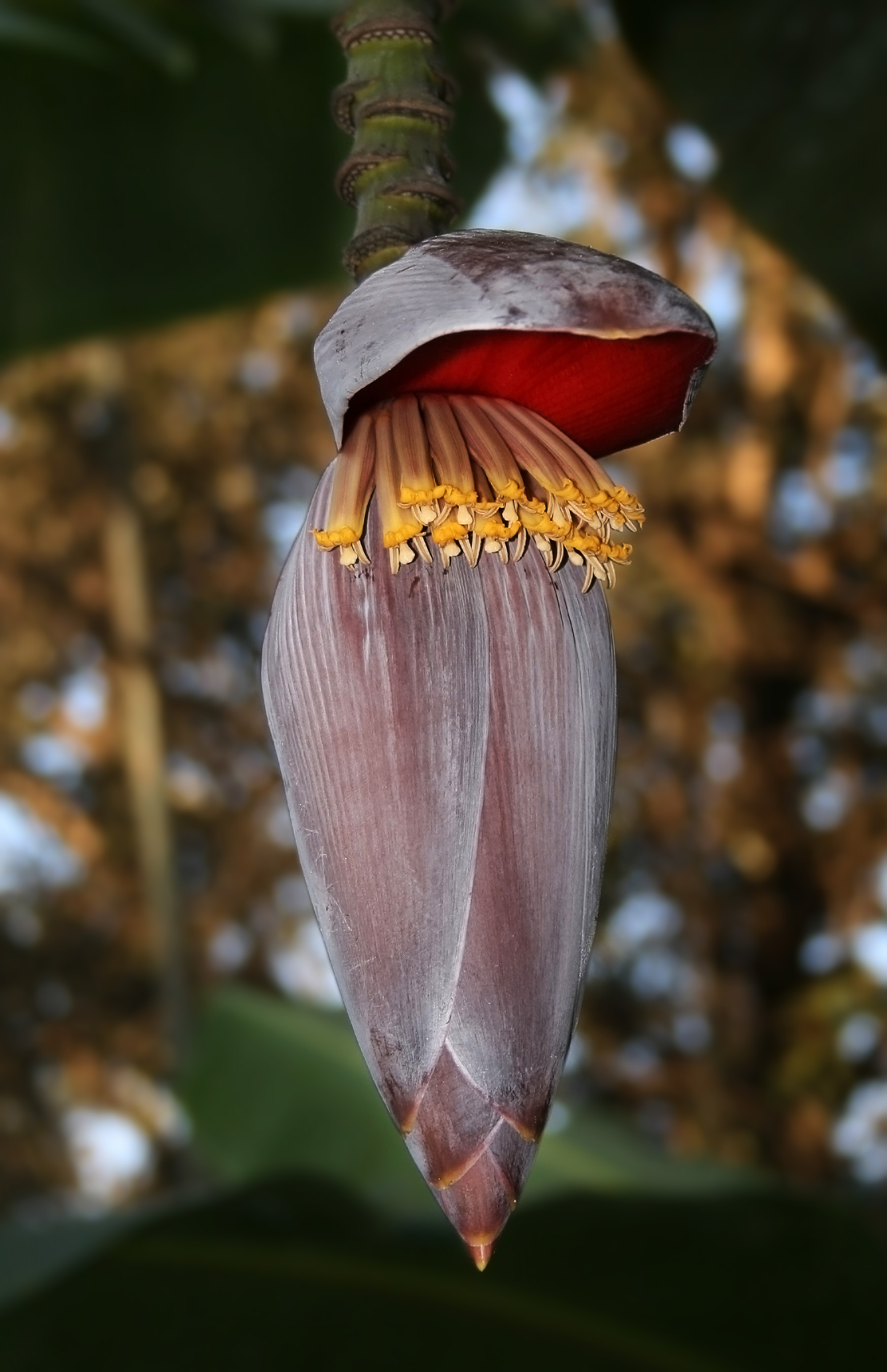 Banana tree (Musa x paradisiaca) male inflorescence